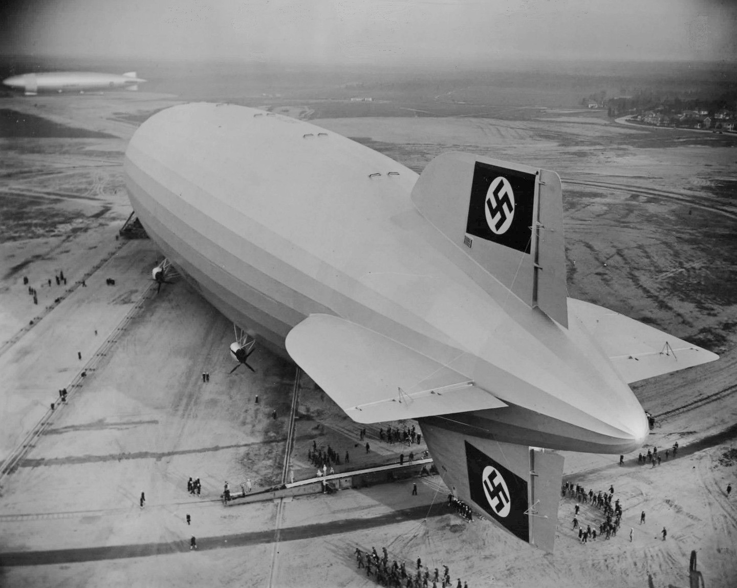 Photo of the Hindenburg's first landing at Lakehurst, NJ May 9, 1936. Passengers are seen descending the airship's folding stairs.